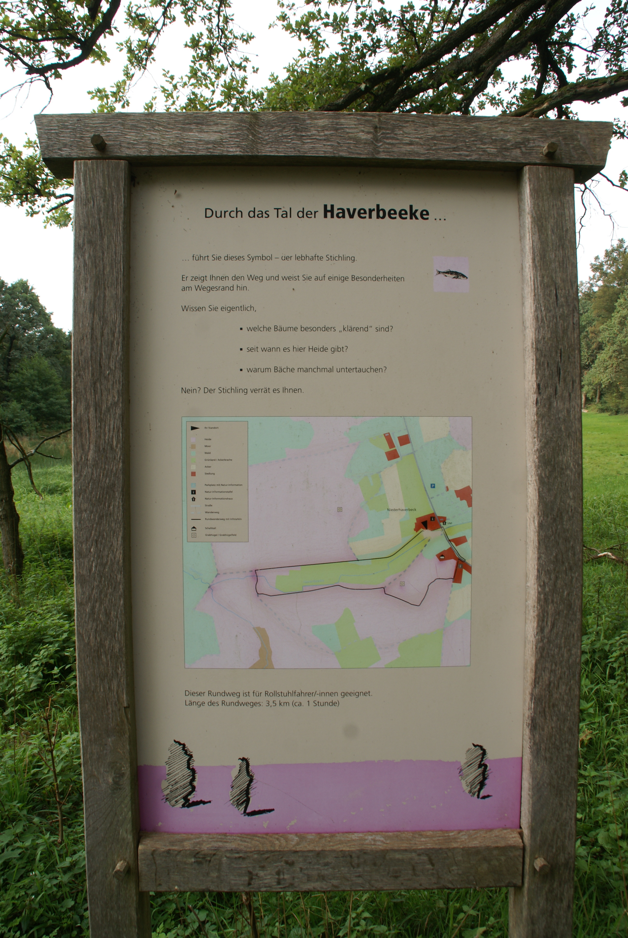 Niederhaverbeck (Germany): Information sign about the walk around de river Haverbeeke